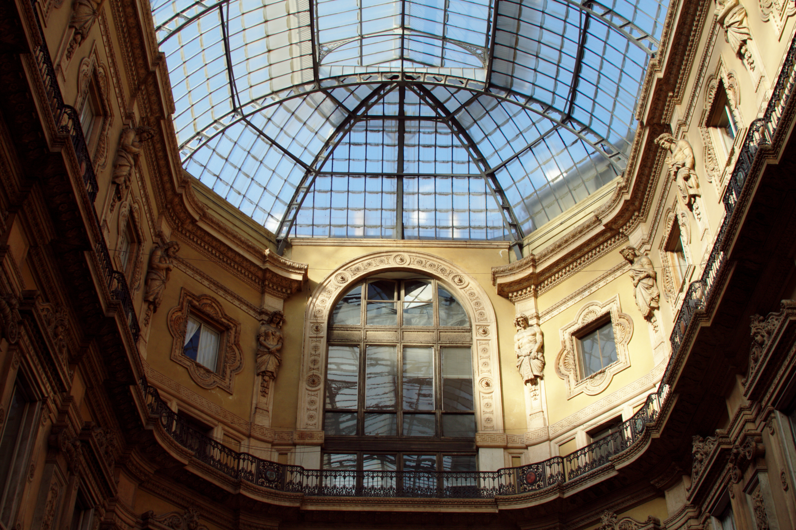 Galleria Vittorio Emanuele II (Milan) - Interior